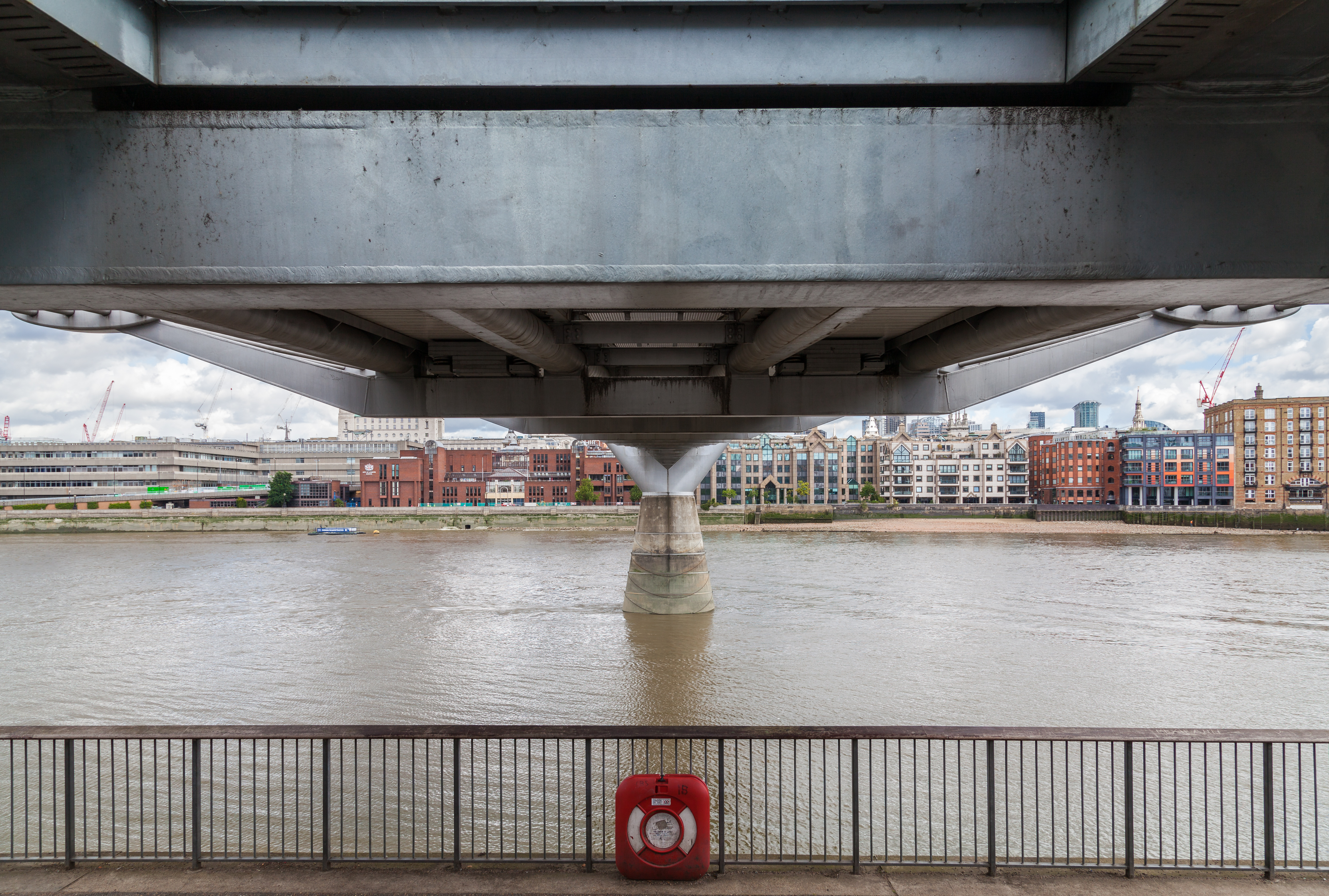 Millennium Bridge, London, England